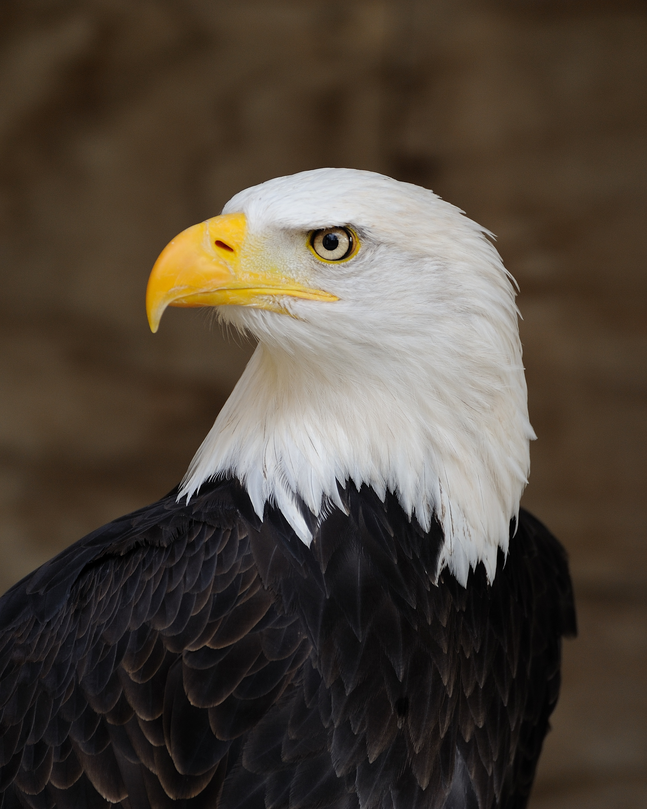 Haliaeetus leucocephalus or as more commonly called... Bald Eagle. Taqbaylit: Haliaeetus leucocephalus naɣ s isem is amsun... Igider Agellad.